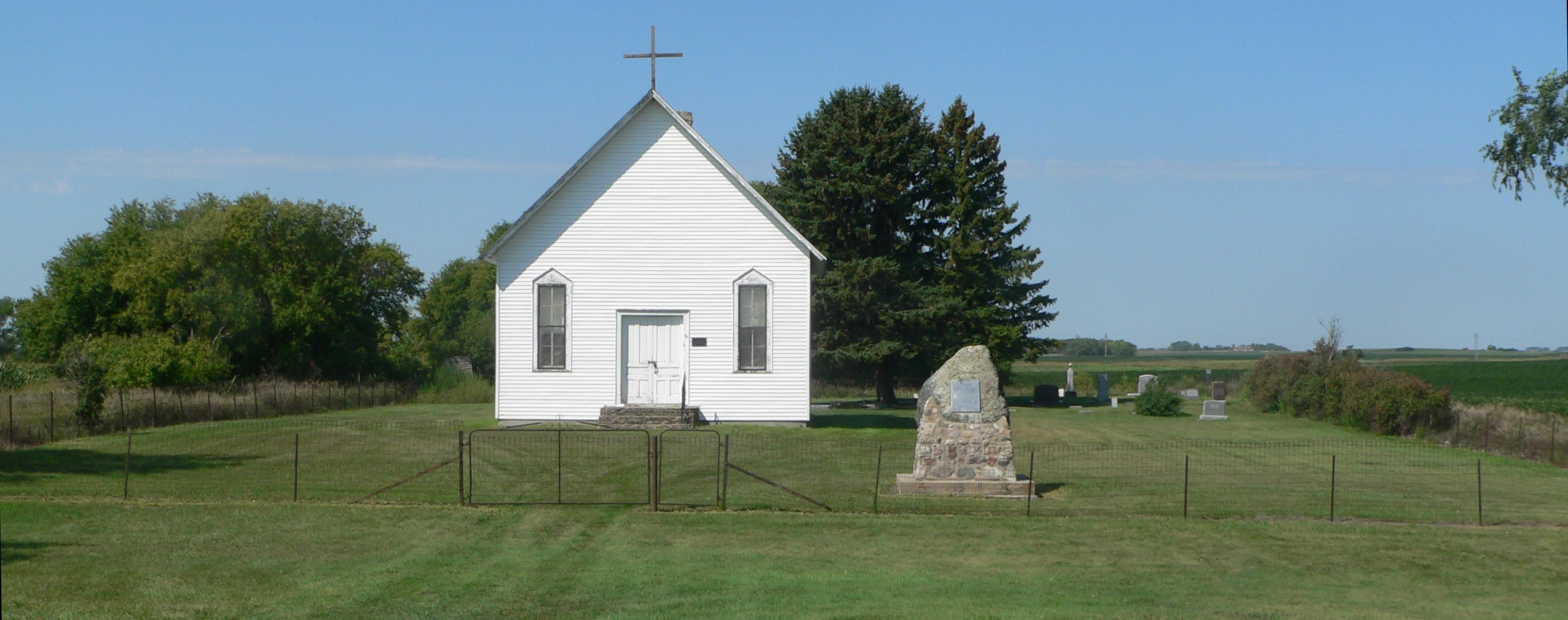 Aurland United Norwegian Lutheran Church, located on west side of county road 391 Avenue about a quarter-mile north of South Dakota Highway 10 in rural Brown County, South Dakota; seen from the east.